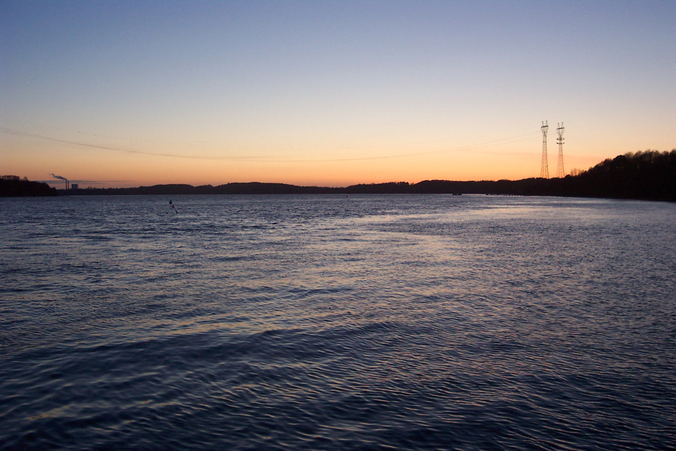 Little Belt−Lillebælt strait in the twilight – Snævringen, Denmark. One of the three Danish Straits that connect the Baltic Sea to the Kattegat strait and North Sea. Right: Pylons of the two 400 kV overhead power line crossings (demolished c.2014).